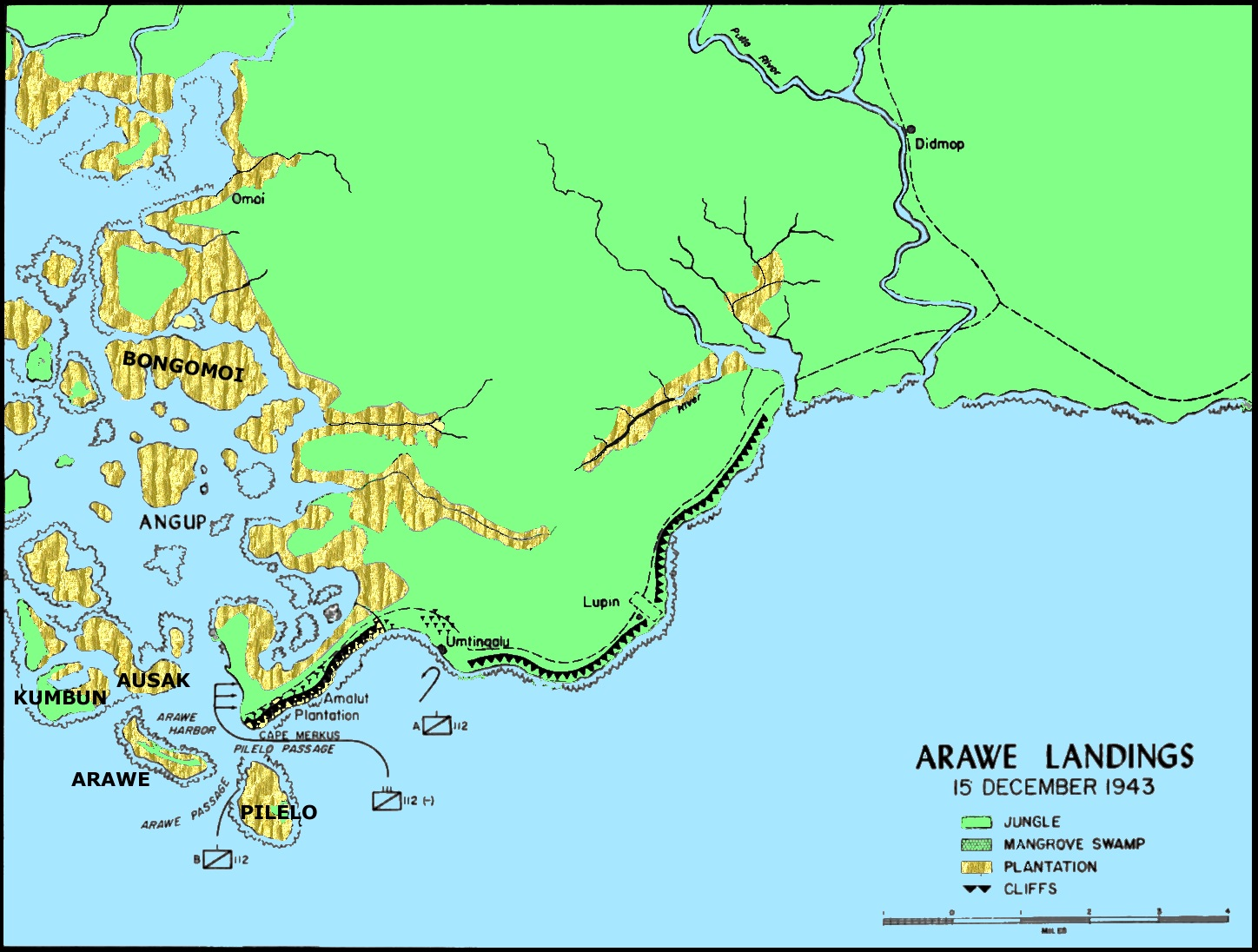 Map of the Arawe area of New Britain at the time of the Battle of Arawe in late 1943 and early 1944